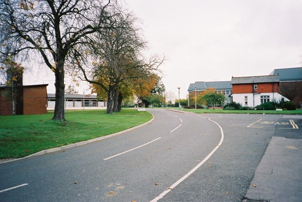 Jealott's Hill Research Station. Where Syngenta conduct research into biotechnology.